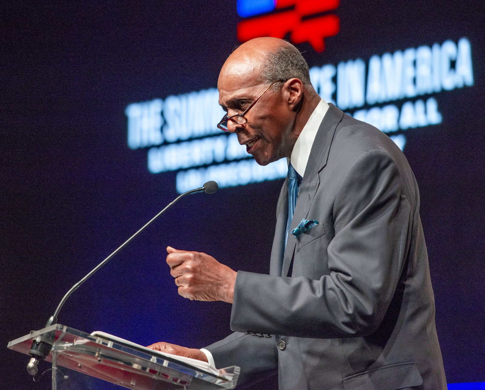 Civil rights activist and businessman Vernon E. Jordan, Jr. addresses The Summit on Race in America at the LBJ Presidential Library on Wednesday, April 10, 2019. Jordan, a lawyer and political adviser, discusses how far the United States has come in diversifying corporate America—and how far there is to go.